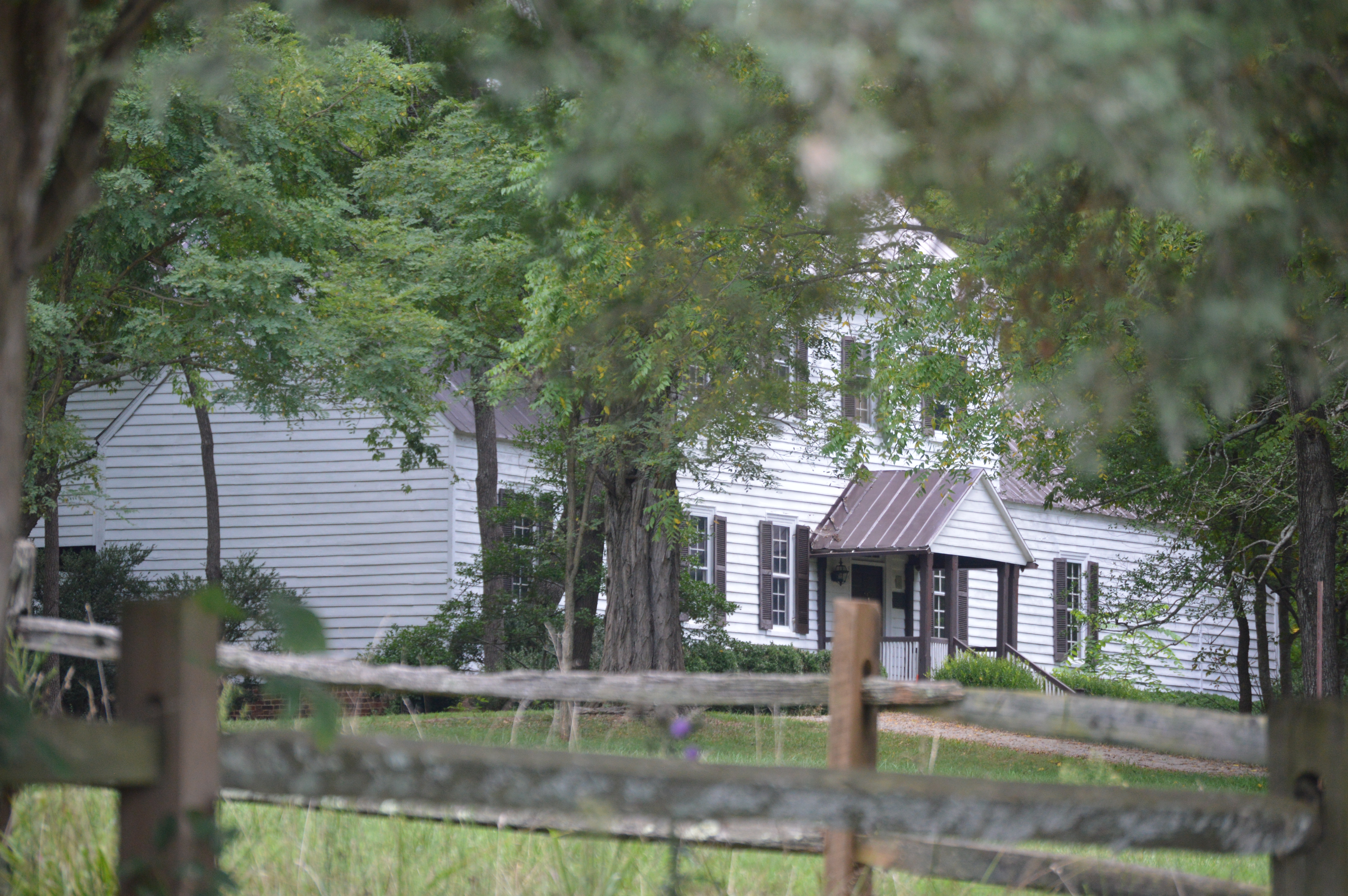 Front of Falkland, located on Falkland Road northwest of Meherrin in Prince Edward County, Virginia, United States. Built in 1750, it is listed on the National Register of Historic Places.